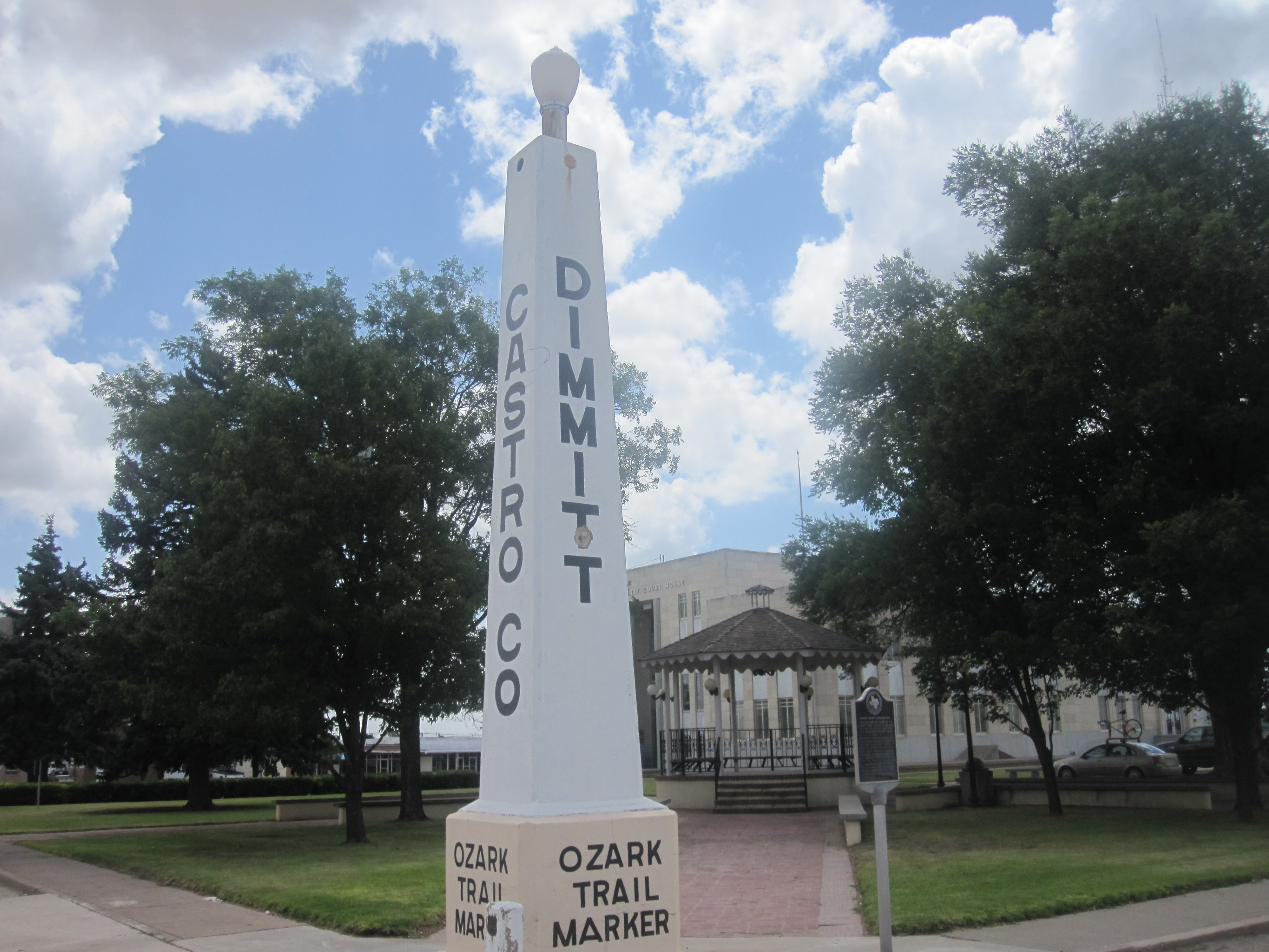 I took photo with Canon camera in Dimmitt, TX.